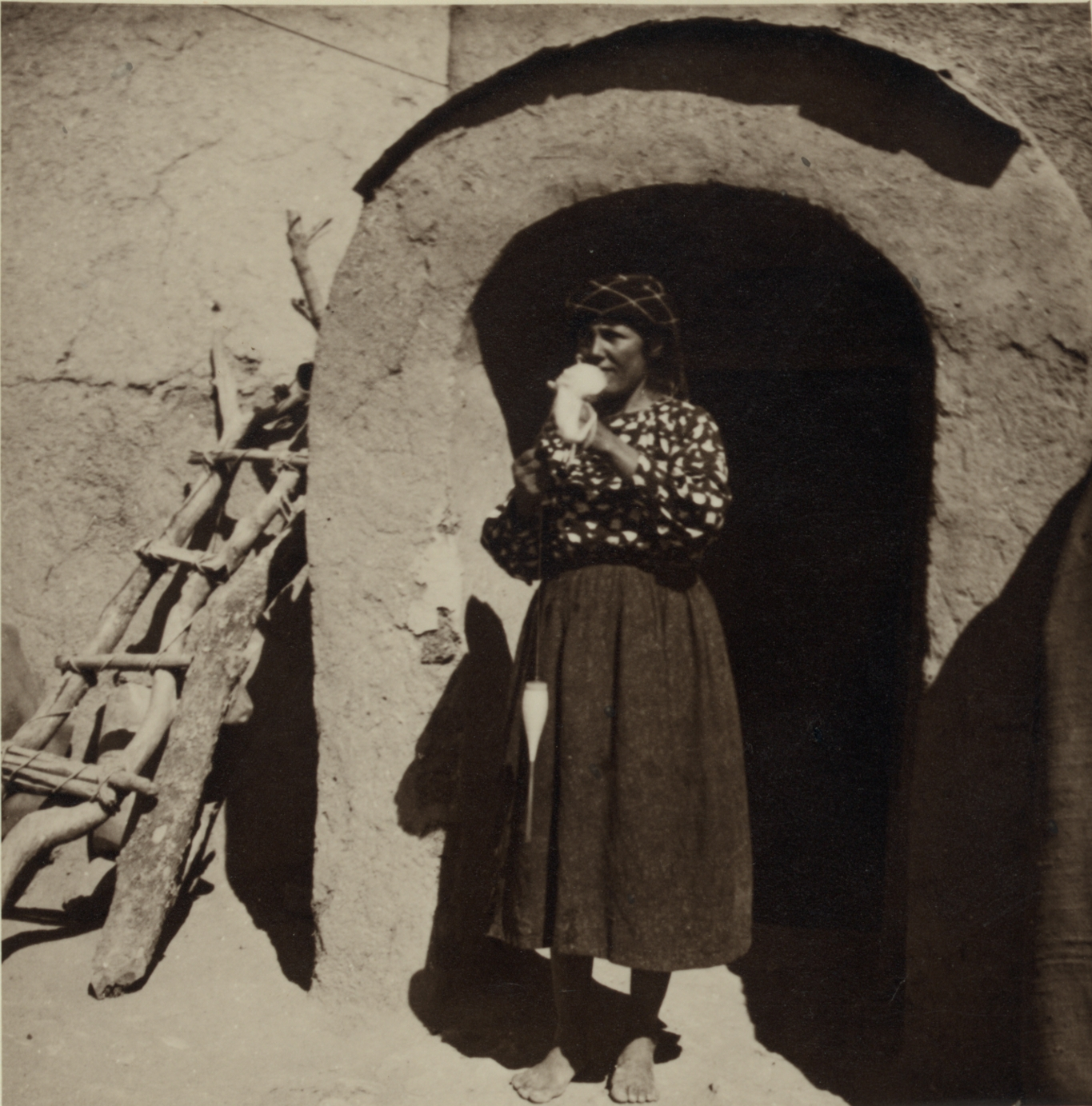 Assyrian refugees at Tell-Tamar and the Khabour River, July 21. Something of the twenty-seven villages built here by the League of Nations. The women still spin wool yarn and knit socks, etc. of it. LC-DIG-ppmsca-17416-00122 (digital file from original on page 65, no. 2093)